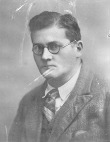 Own family album